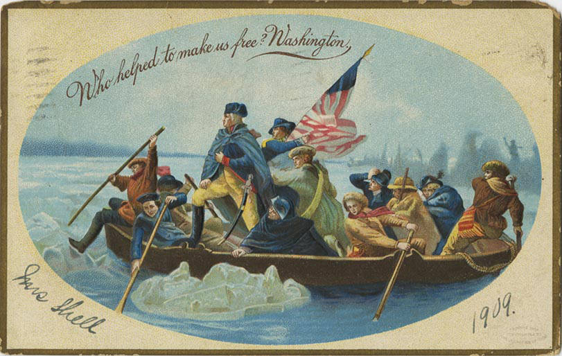 George Washington crossing the Delaware, Washington's Birthday